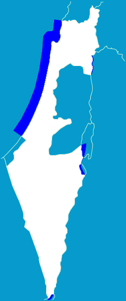 Territorial waters of Israel